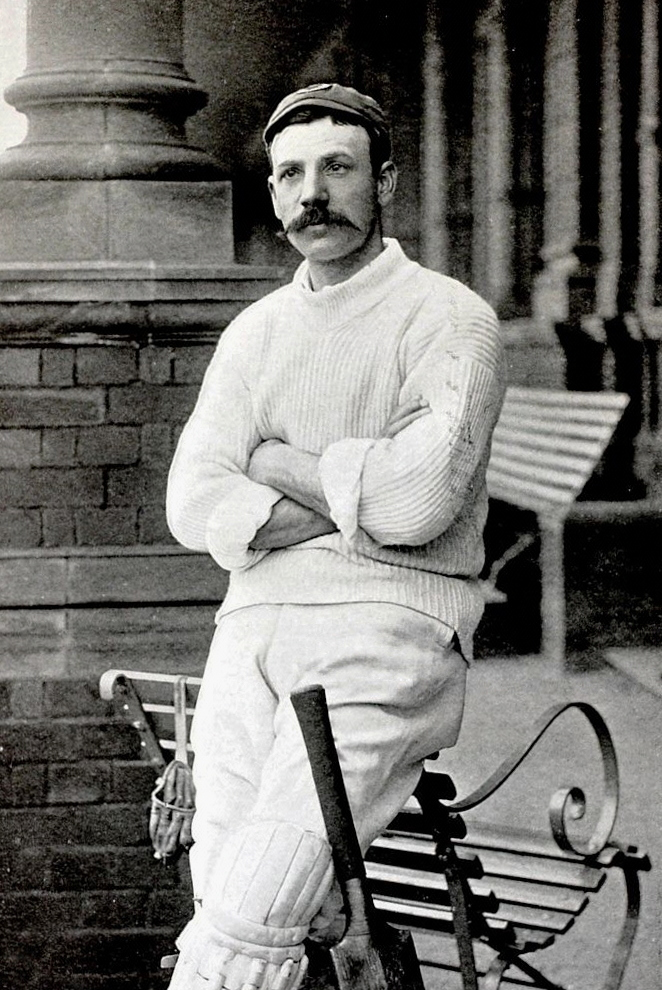 Scan of cricketer Walter Sugg